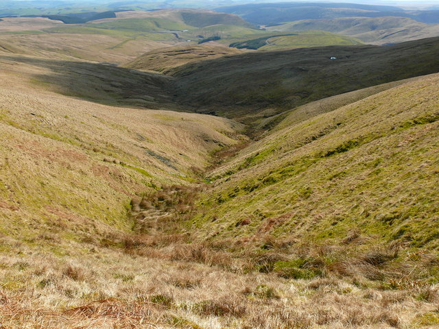 Source of the River Wye